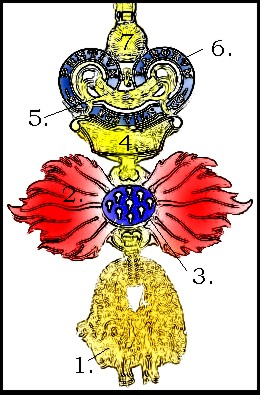 Order of the golden fleece. Scheme. Austrian version